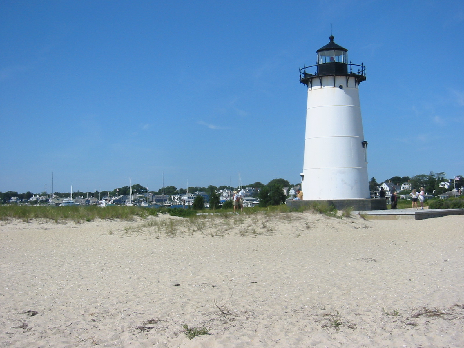 Edgartown Harbor Light in Martha's Vineyard.